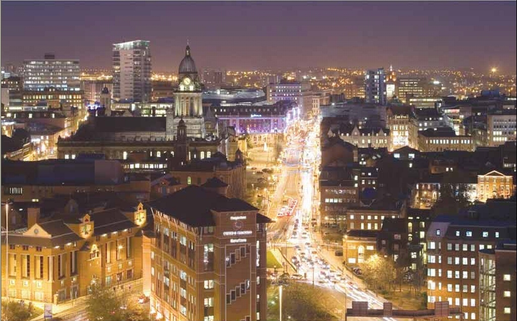 Leeds. Taken at rush hour, sky enhanced in photoshop